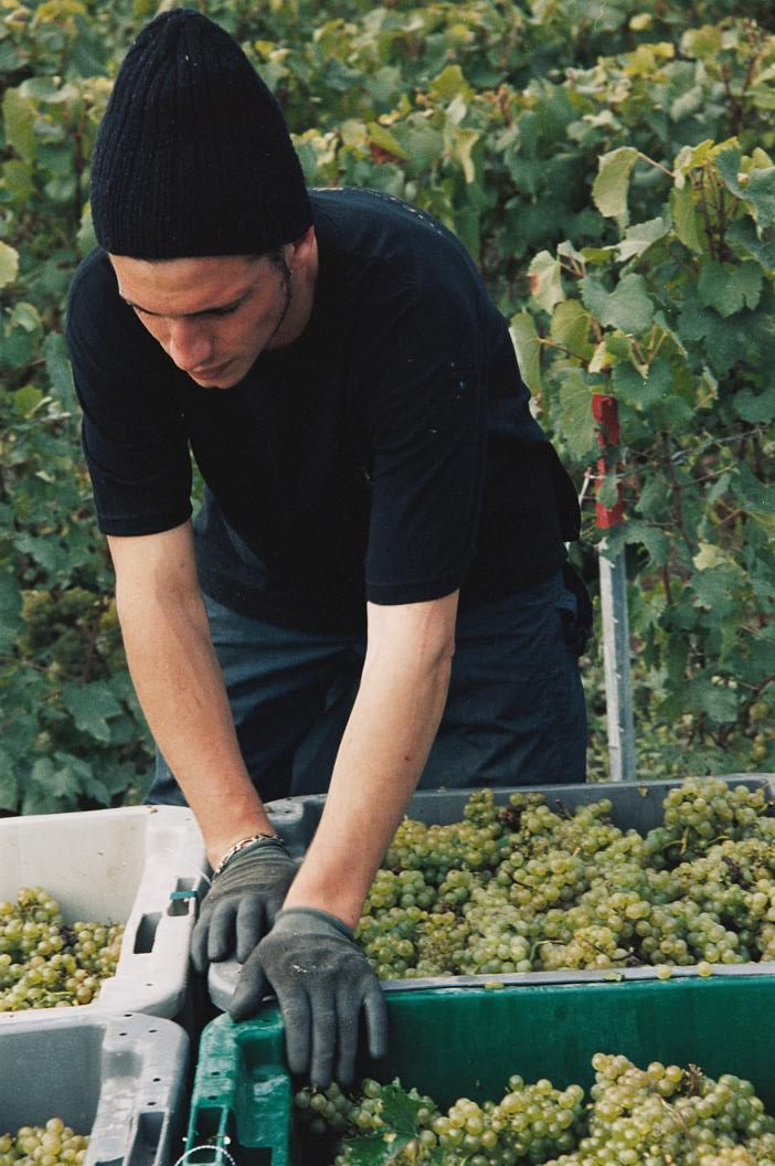 Möet & Chandon vintage 2008, Champagne, France. Chardonnay grapes being put in shallow bins after harvest.